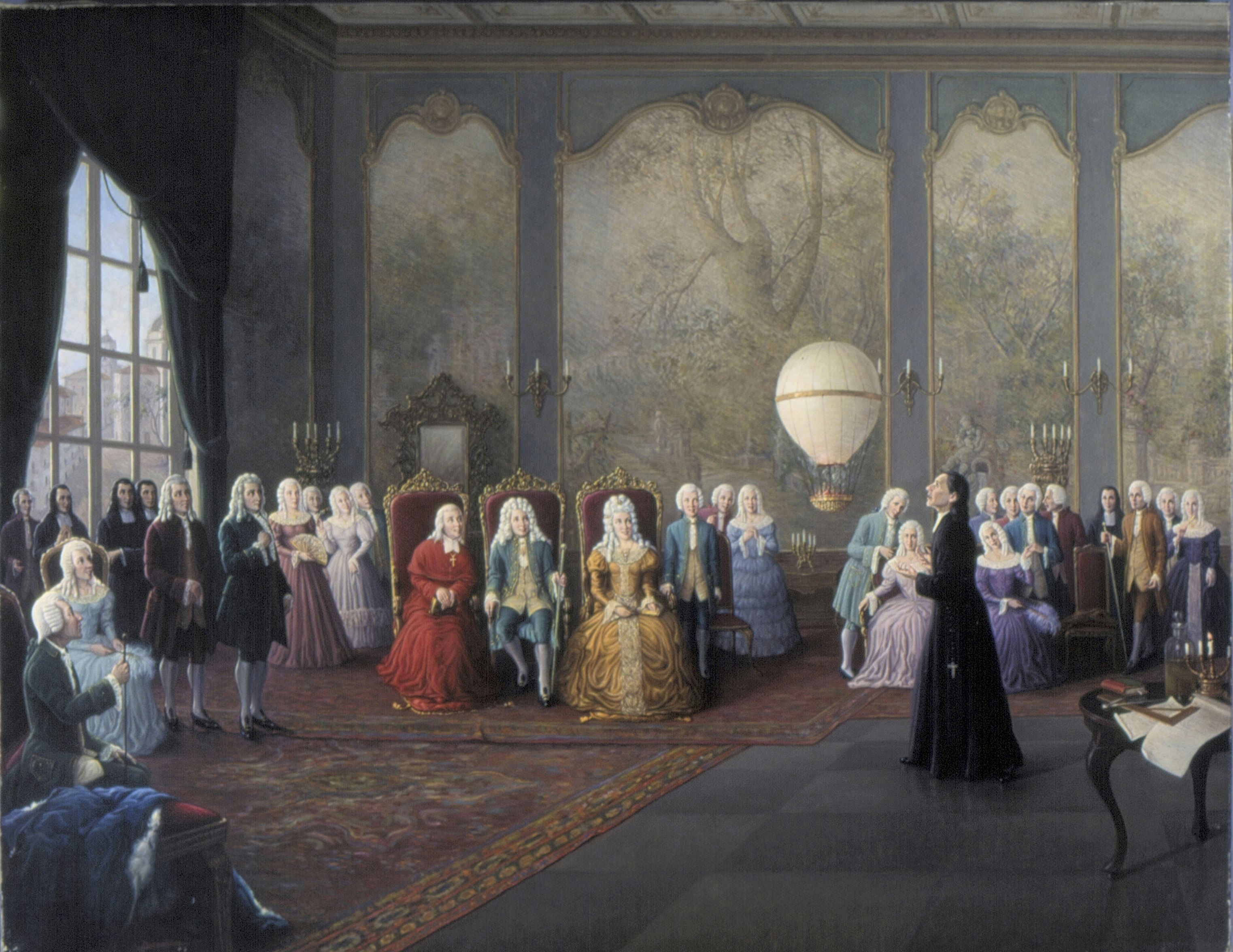 Introduction of a small balloon to the court of D. João V., Bartolomeu Lourenço de Gusmão, S.J.